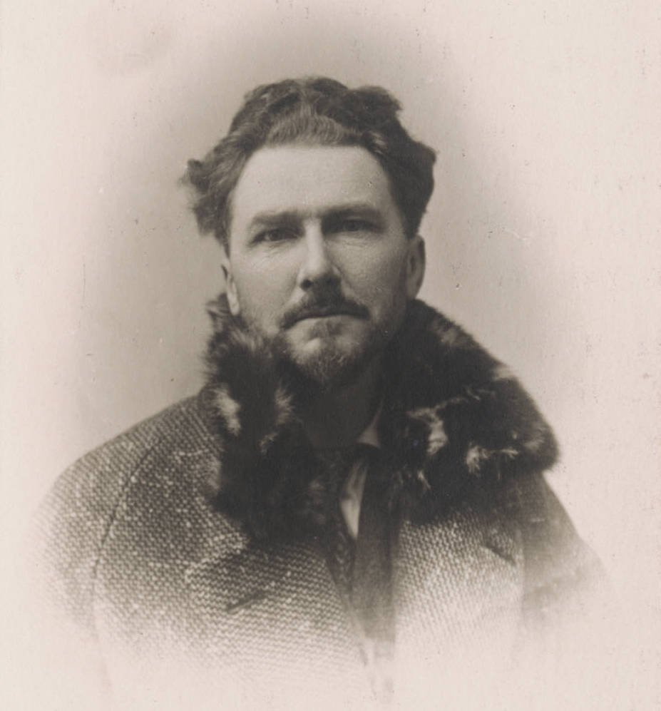 Undated black-and-white United States passport photograph of American writer Ezra Pound. Image courtesy of the Yale Collection of American Literature, Beinecke Rare Book & Manuscript Library.[1]